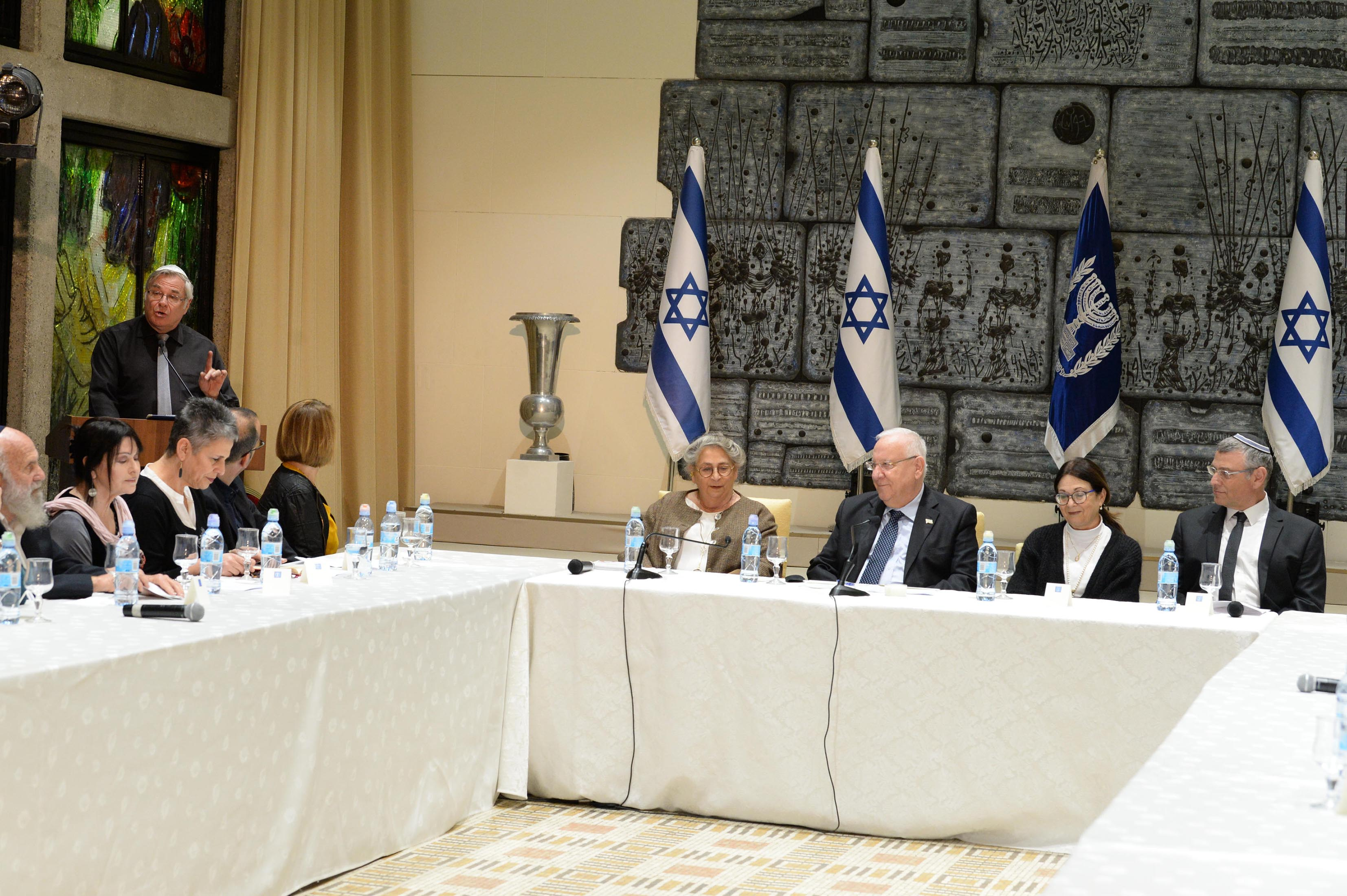 President of Israel, Reuven Rivlin, and his wife hosting the 16th Bible class as part of Project 929 at Beit HaNassi, January 7, 2018. Photo Credit: Mark Neyman / GPO.